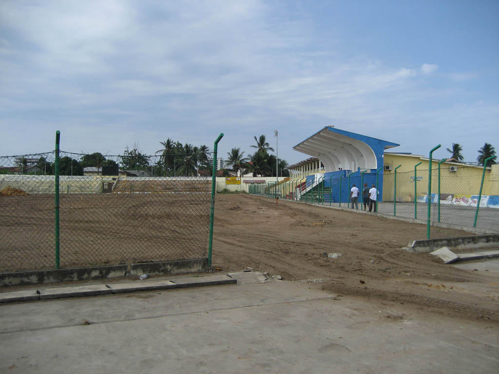 Estadio la Libertad Photo taken July 2010 Bata, Equatorial Guinea